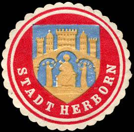 Sealing stamp Title: Stadt Herborn Description: bunt, geprägt Place: Herborn size: 4 cm